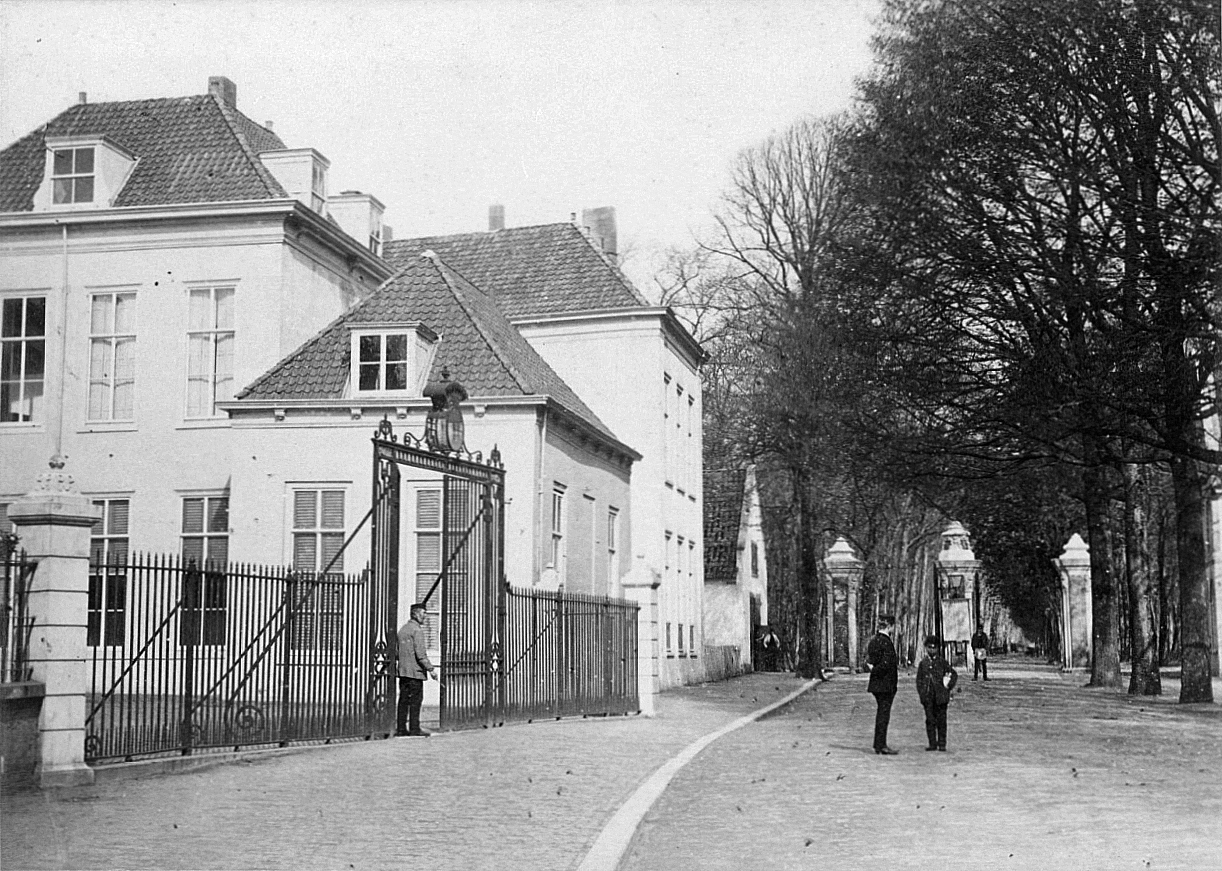 Scheveningseweg, The Hague, the Netherlands. To the left the entry to House Buitenrust. It was erected by Landgrave Philip of Hesse-Philippsthal early 18th century. In the nineteenth century it was inhabited by the queen dowager Anna Pavlovna Romanova, daughter of the Tsar of Russia and widow of King William II of the Netherlands. It was demolished to make room for the construction of the Peace Palace.